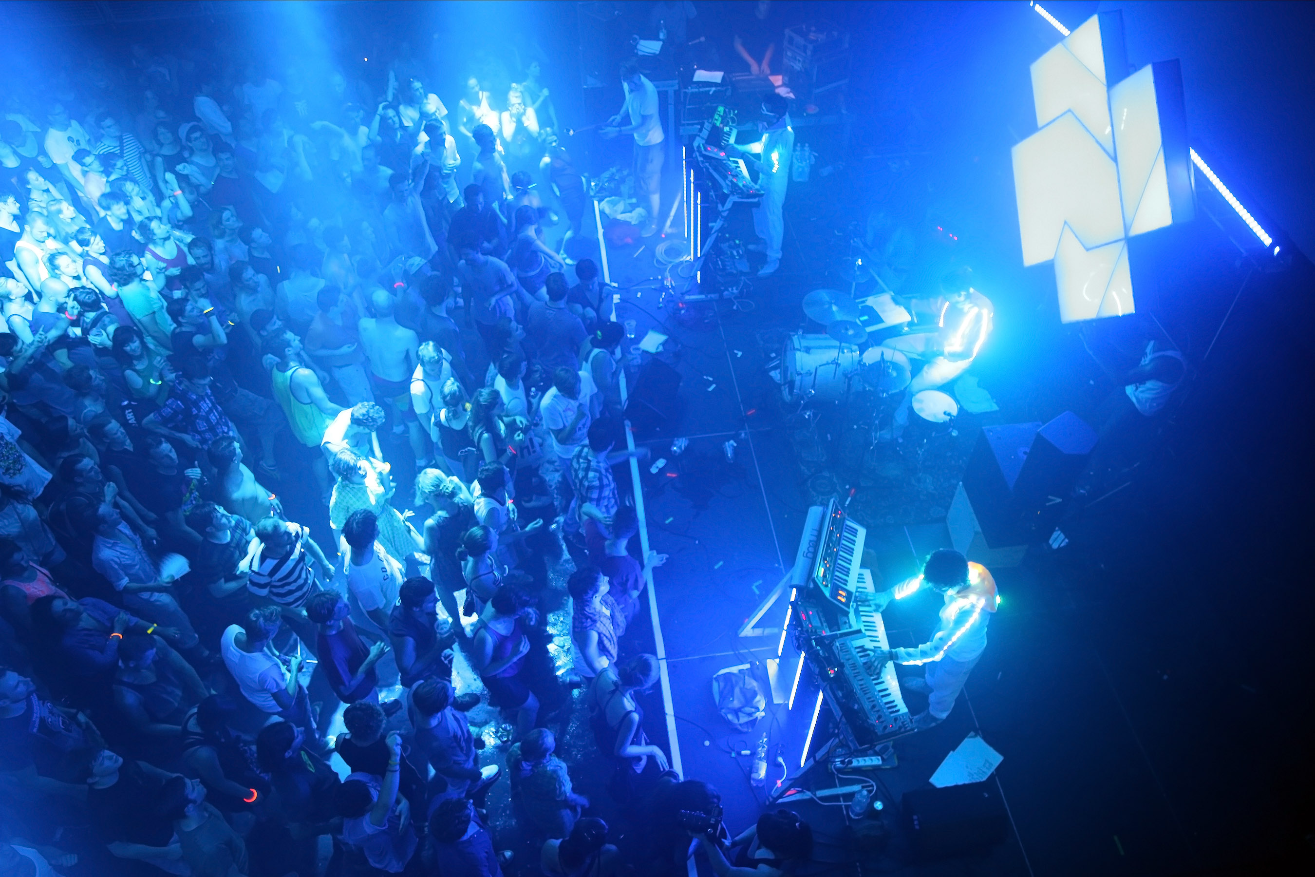 Gudrun von Laxenburg, concert at brut im Künstlerhaus during Popfest 2013 in Vienna, Austria.